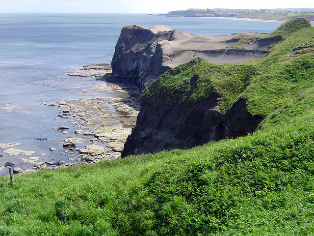 Sandsend Ness To read more about Sandsend Ness please follow the link.